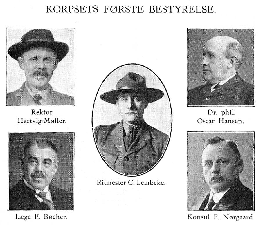 The first board of the Danish scouting organisation